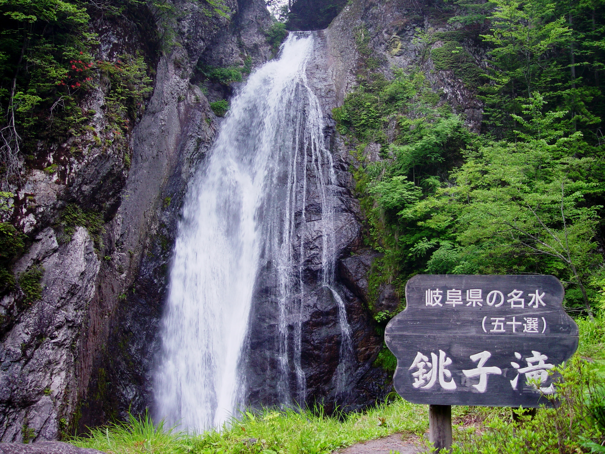 Chōshi Fall in Nyūkawa, Gifu